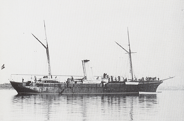 Austro-Hungarian gunboat (SMS Zara) - copyright expired